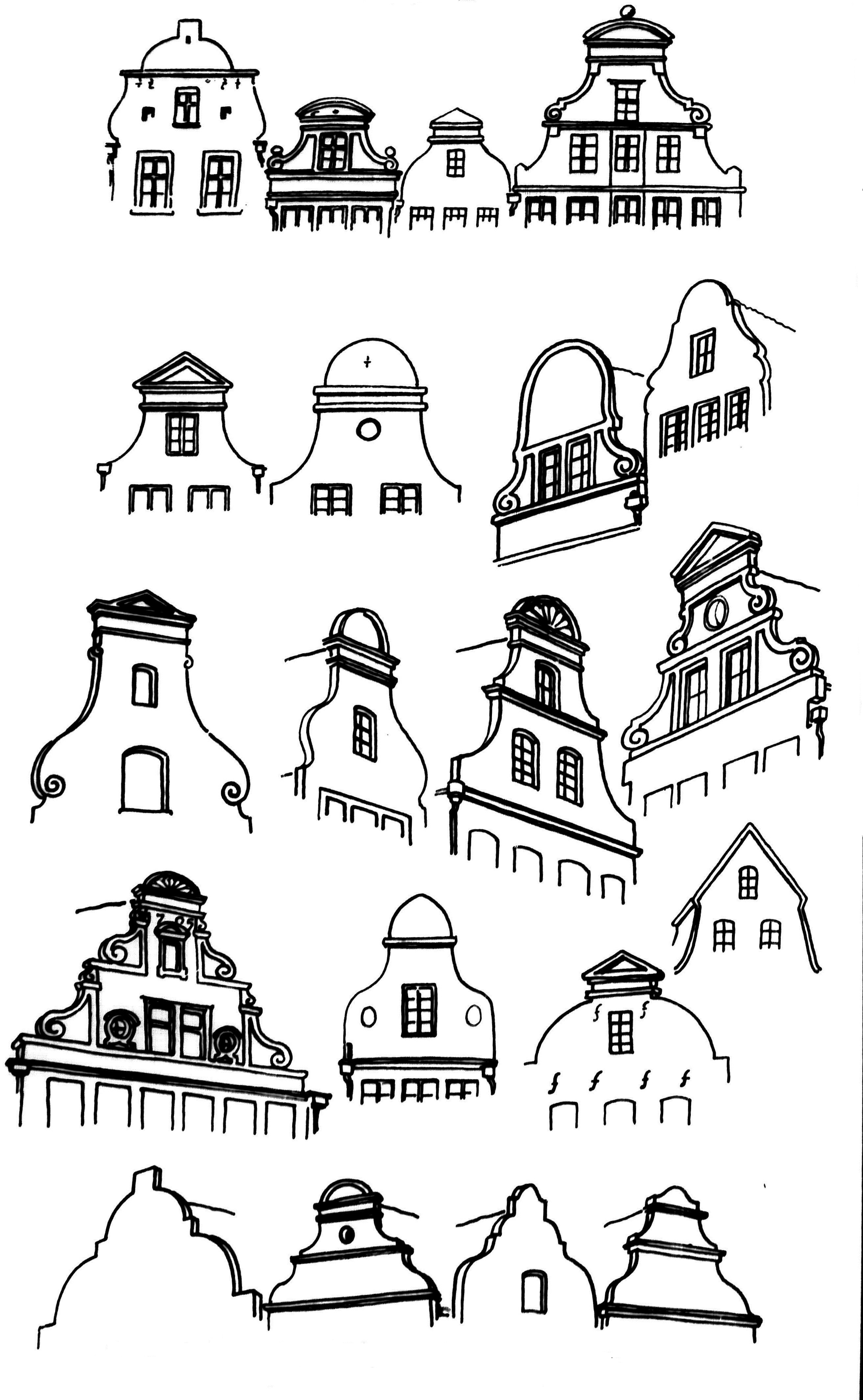 Paul Sültenfuß (* 12. August 1872 in Unna-Königsborn Kreis Hamm i.W.; † 28. April 1937 in Düsseldorf) Giebelformen in Düsseldorf, (Das Düsseldorfer Wohnhaus bis zur Mitte des 19. Jahrhunderts, 1922).jpg